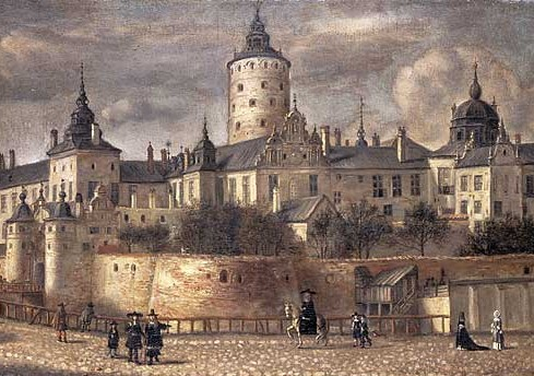 Castle "Tre Kronor" Stockholm 1661